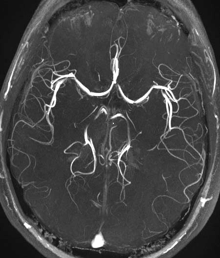 Maximum intensity projection (MIP) of a time-of-flight (TOF) magnetic resonance angiography (MRA) collected at 4 Tesla. MRA shows the circle of Willis